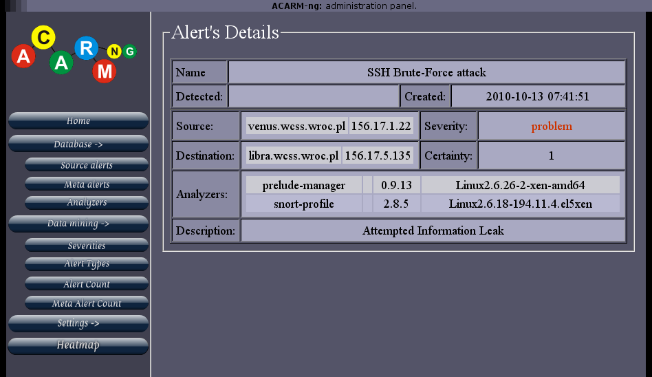 ACARM-ng's WUI screenshot - example alert.